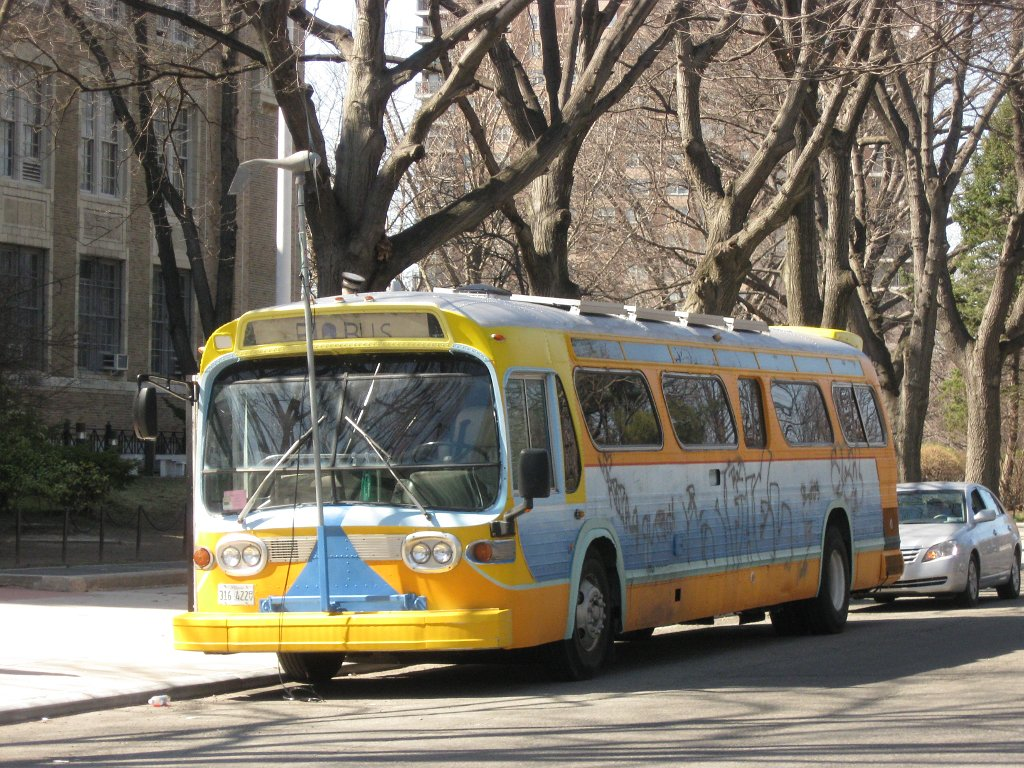 The New York BioBus, a 1974 GMC New Look T8H-5307A single-door that was originally Golden Gate Transit 895, is parked outside of DeWitt Clinton High School in The Bronx, NY. The device protruding from the front bumper is a feature of the BioBus.